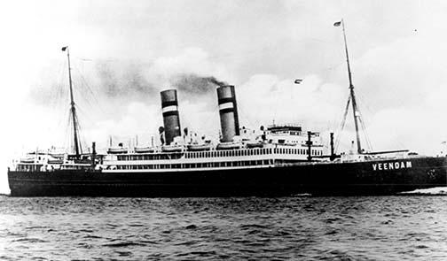 This is a photo of the SS Veendam that was taken between 1923 to 1939.